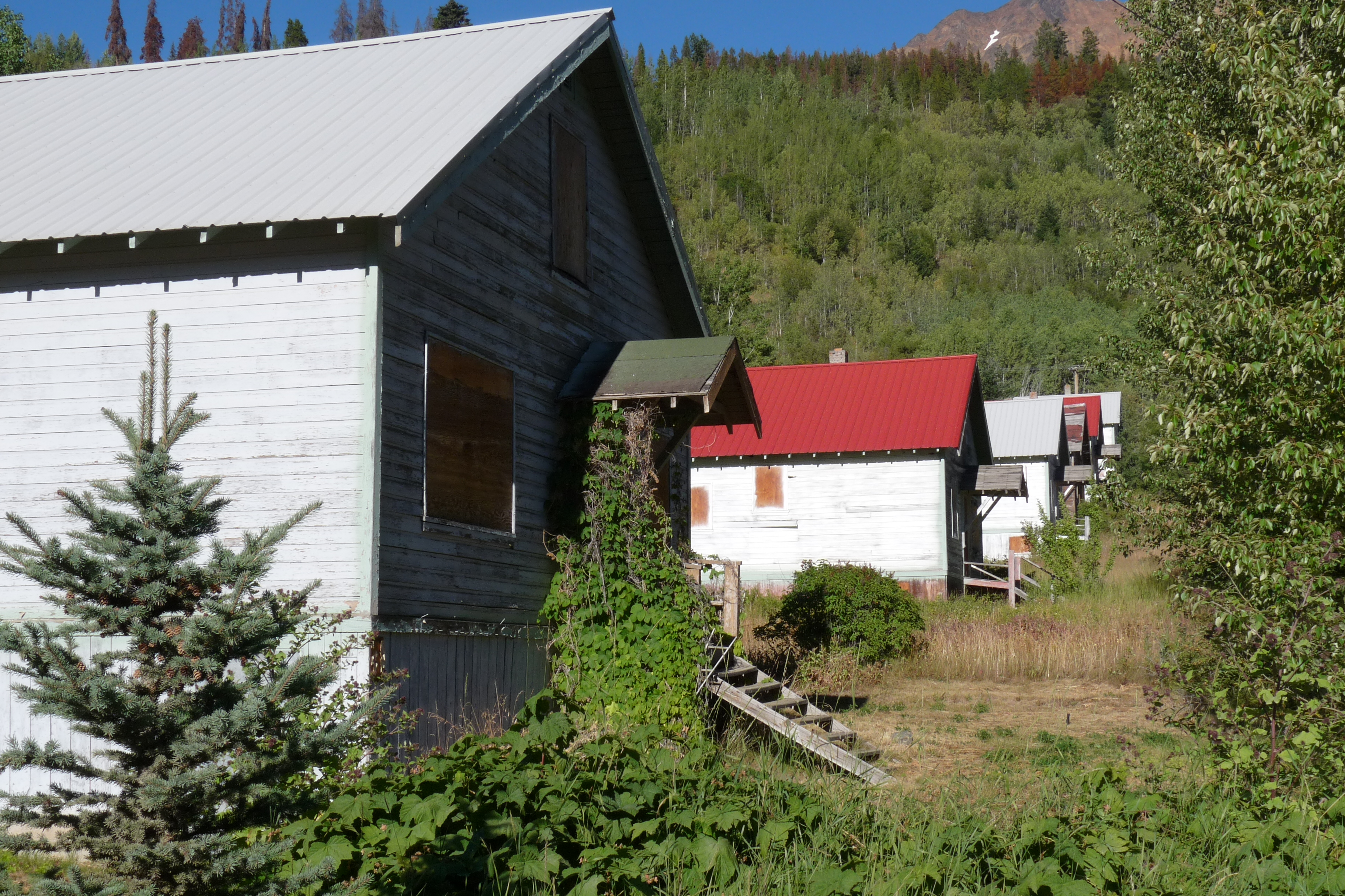 Abandoned houses left behind at Bradian (Bralorne, BC)